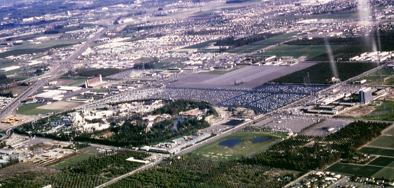 Aerial photo of Disneyland, the Disneyland Hotel, the monorail system, the Disneyland heliport, surrounding orange groves, Santa Ana Freeway (now I-5) and the Melodyland Theater "in the round."